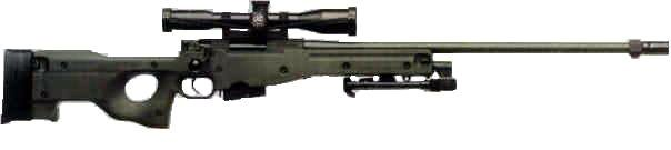 A Psg 90; the Swedish version of the Accuracy International Arctic Warfare sniper rifle.